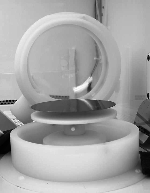 A spinner is used to apply a thin even coating of photoresist to a silicon wafer so that the pattern on a photomask can be transferred and a circuit can be fabricated. The image shows a wafer of 6" (125 mm) diameter that has been mounted on the vacuum chuck and is ready for spinning. The user dispenses a drop of photoresist in the center of the wafer and the centrifugal force spreads the fluid into an even film, eliminating excess photoresist at the edge of the wafer in the process. Note that the light in the room really is yellow.